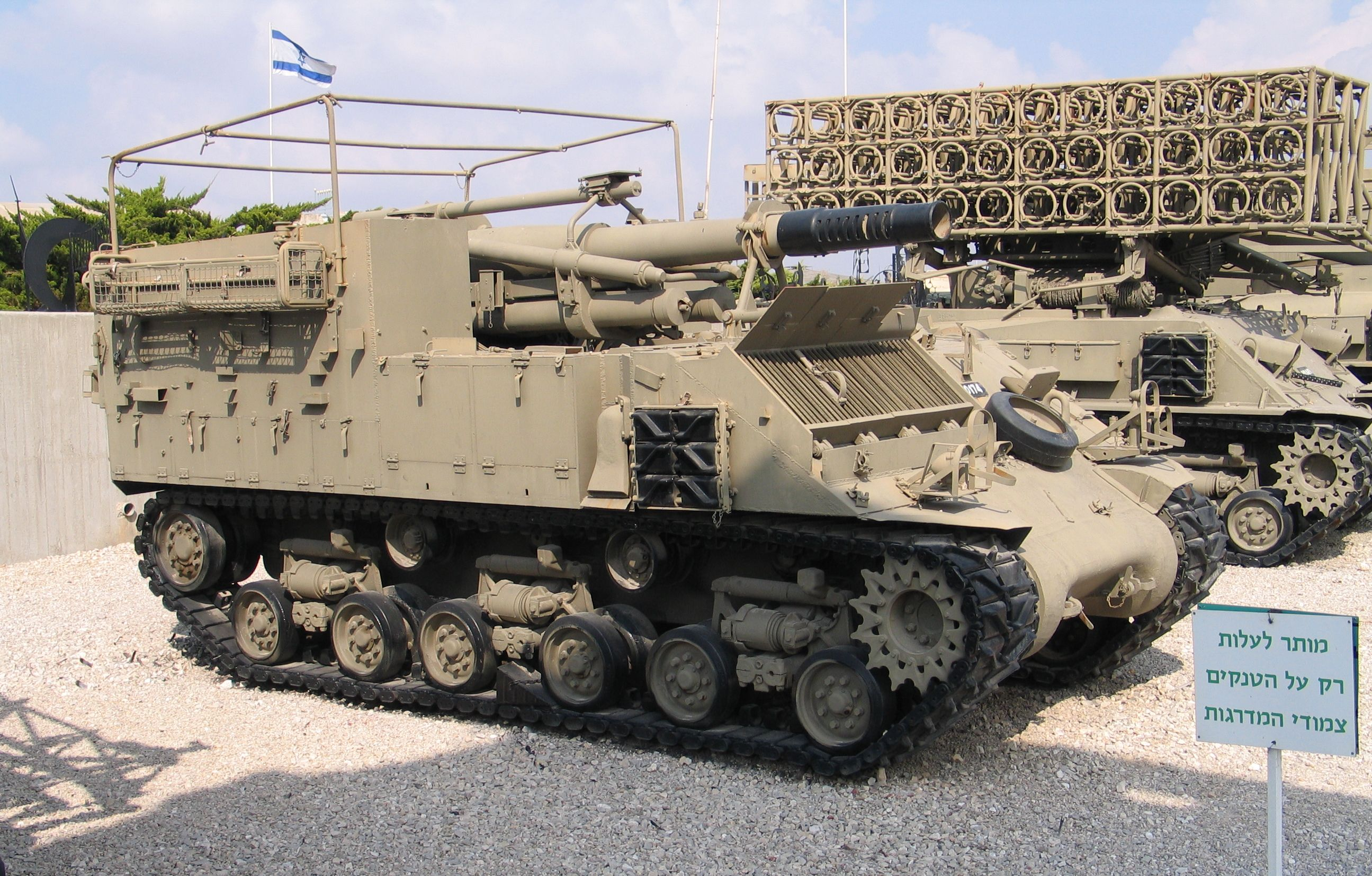 Israeli M-50 155 mm self-propelled howitzer on M4 Sherman chassis in Yad la-Shiryon Museum, Israel.